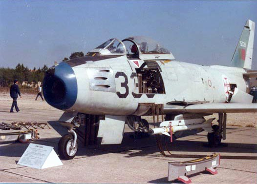 PoAF F-86F Sabre at Monte Real AB